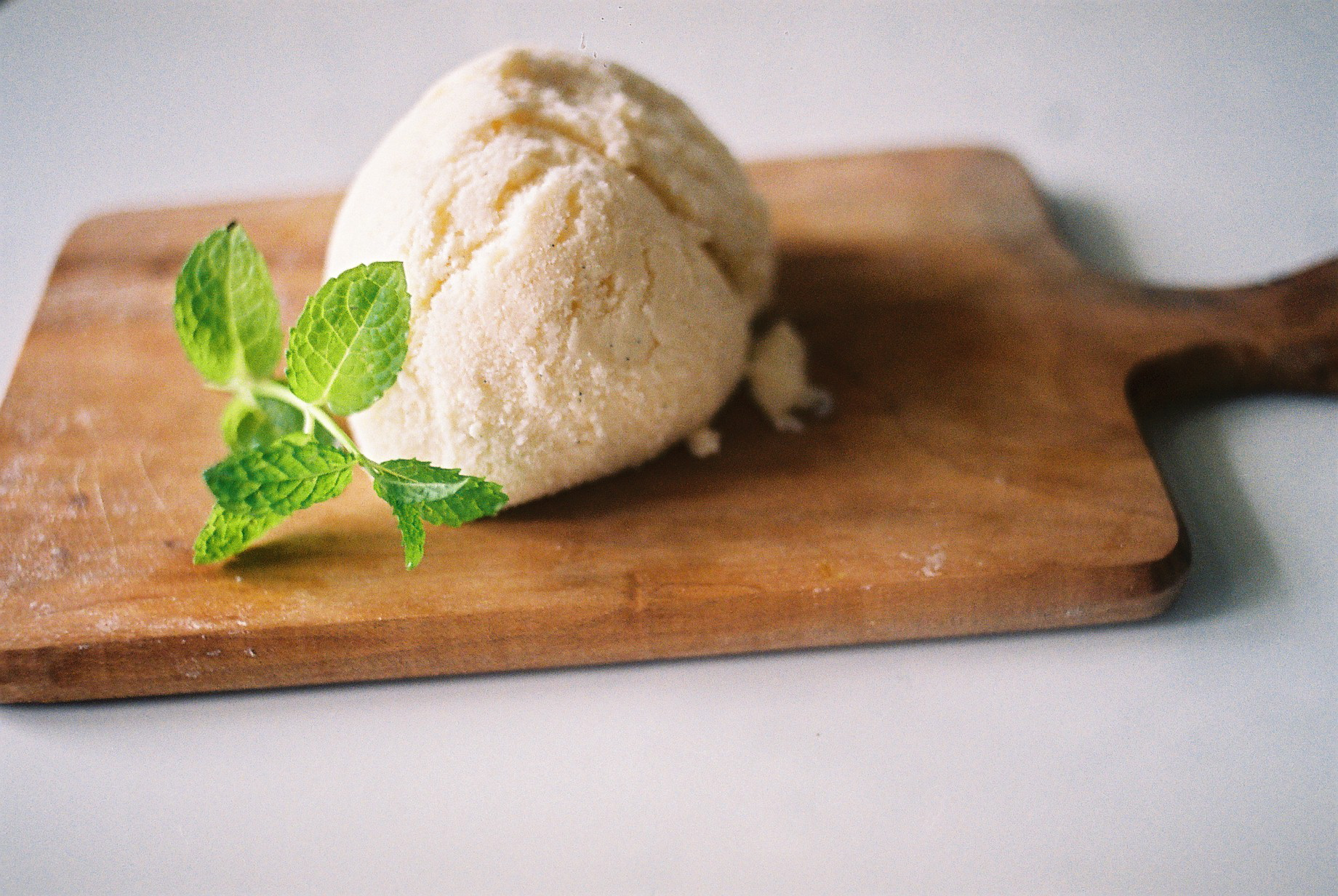 my husband is an ice cream maker.